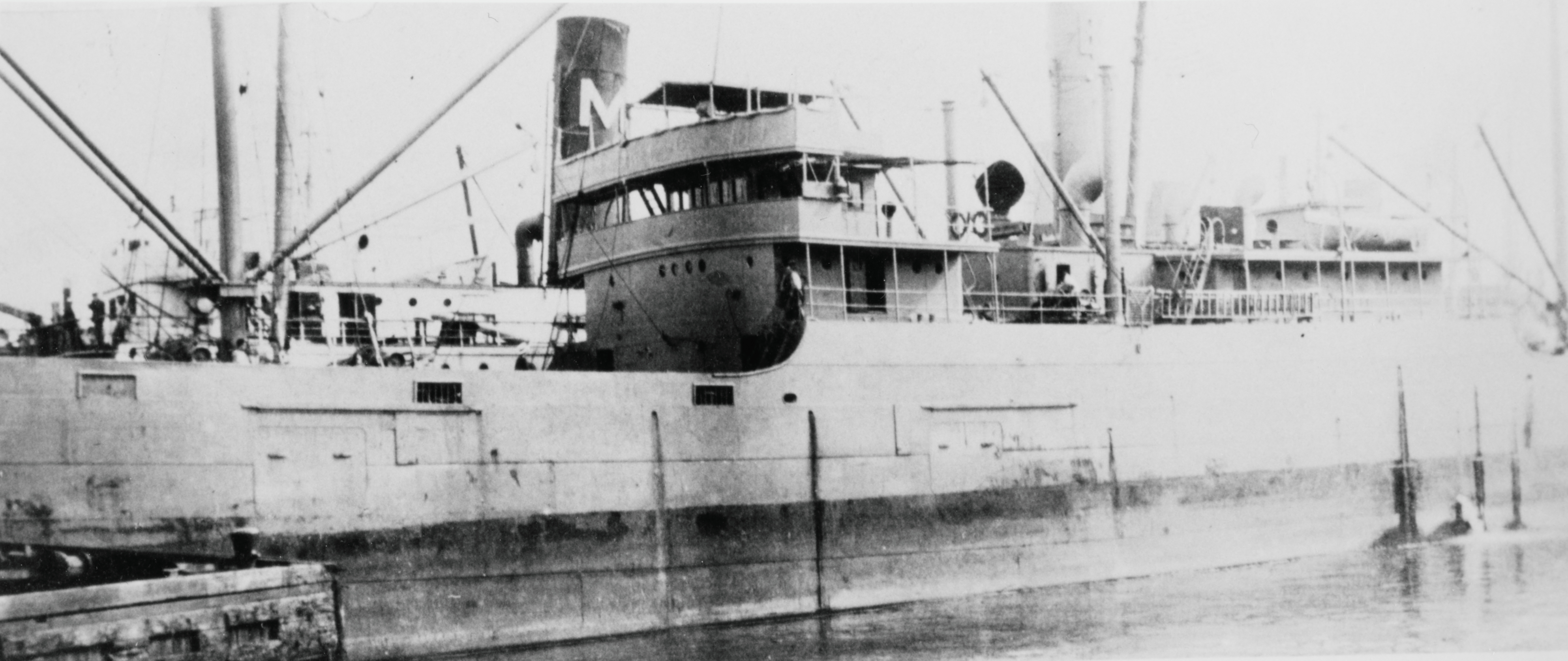 SS Carolyn (which would later become the USS Atik (AK-101)) moored pierside, circa 1917-18, place unknown. US Navy photo # NH 102438 from the collections of the US Naval Historical Center Removed caption read: Photo # NH 102438 S.S. Carolyn in port, circa 1917-1918. She was USS Atik (AK-101) during World War II